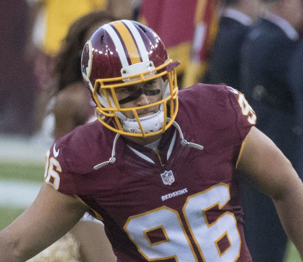 Washington Redskins linebacker, Houston Bates, before the start of a preseason game against the Buffalo Bills on August 26, 2016.